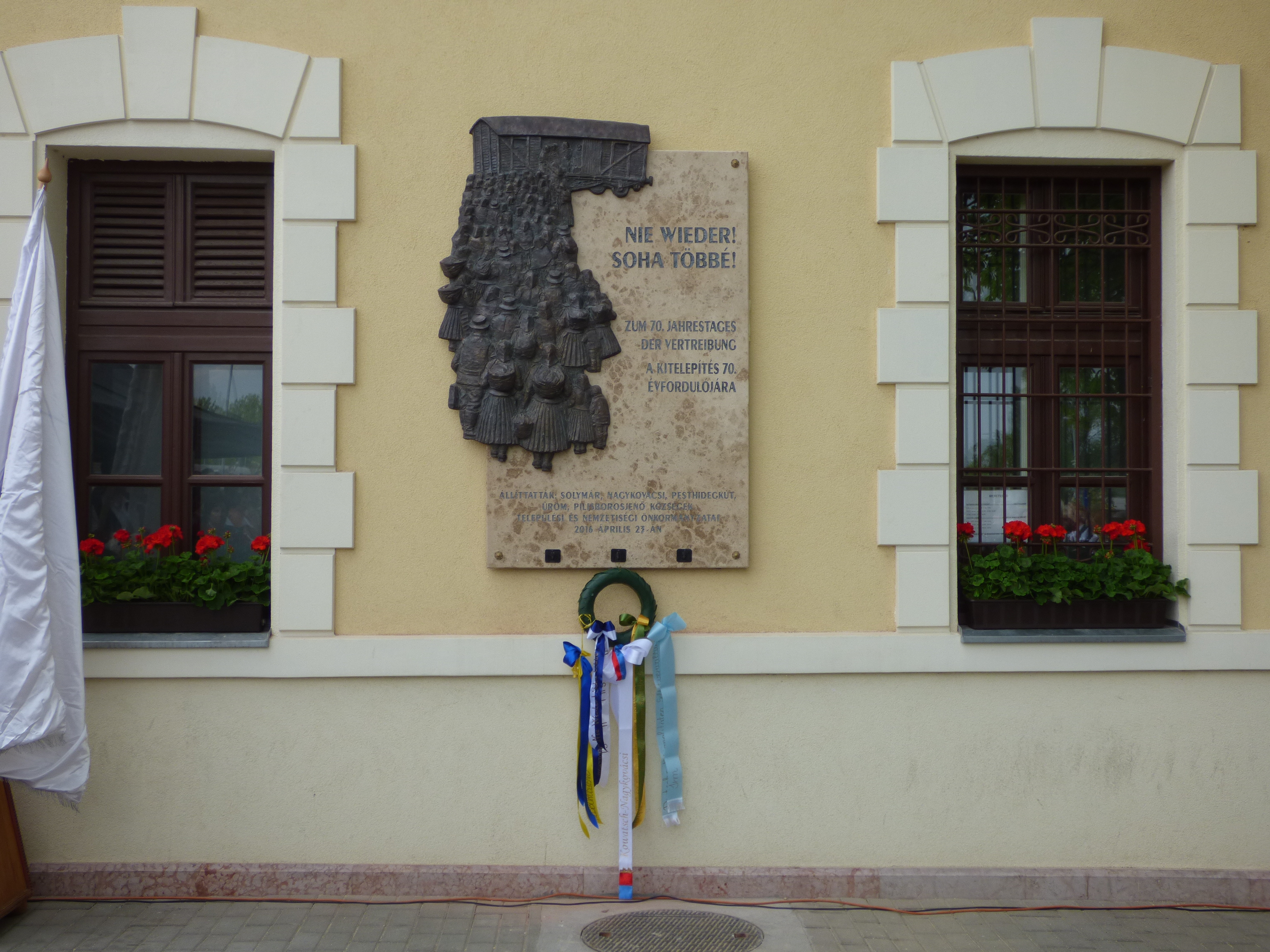 Kitelepítési emléktábla avatása a solymári vasútállomáson - emlékmű az avatás után